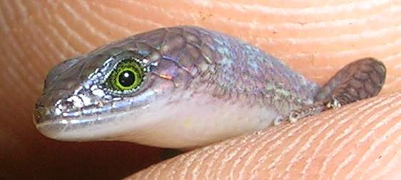 Head of Travancore Cat Skink (Ristella travancorica) Photo by L. Shyamal, Wynaad, 2006